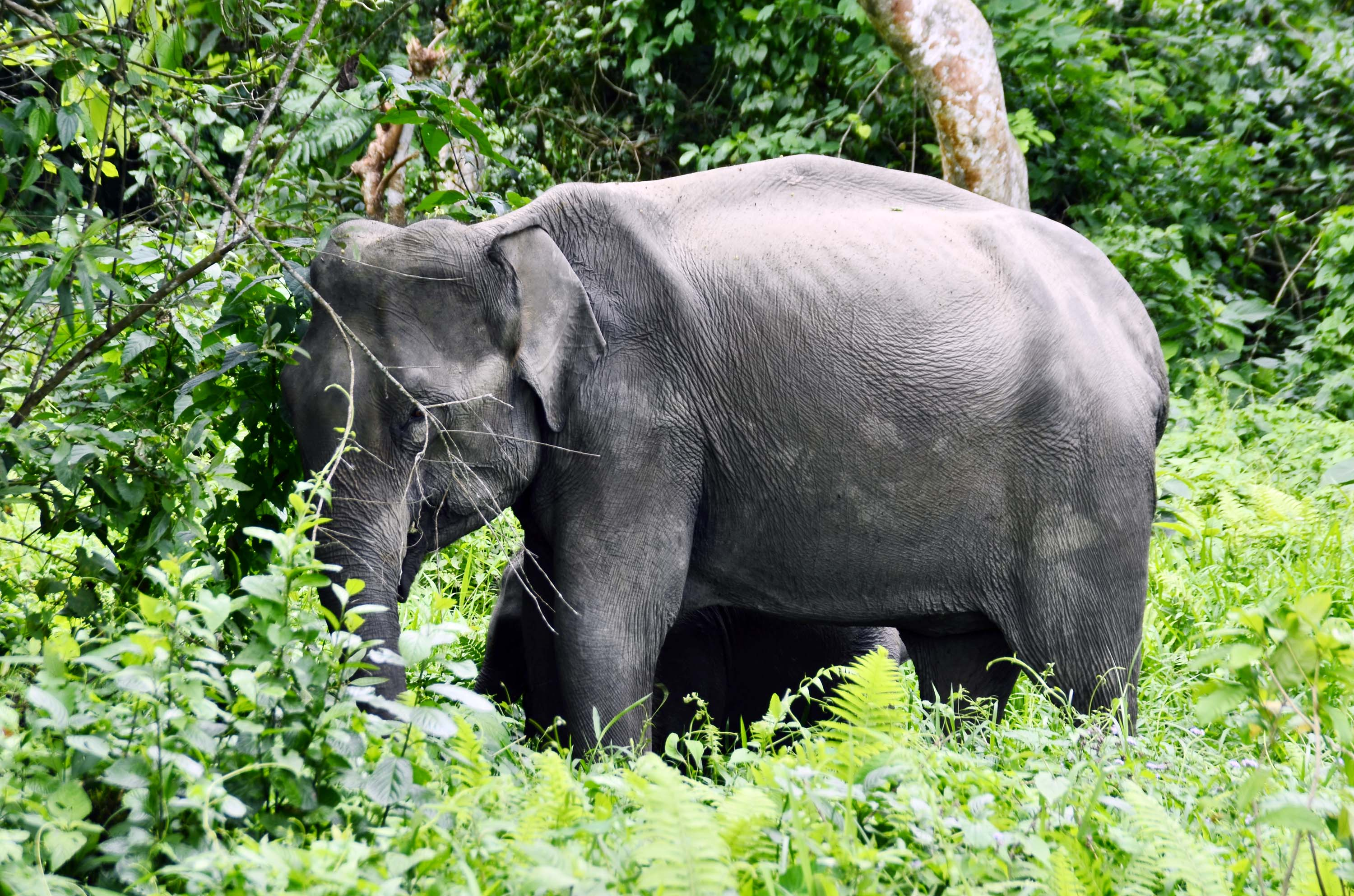 A wild elephant gazing inside the deep forest of Nameri National Park, situated in Sonitpur district of Assam in India.